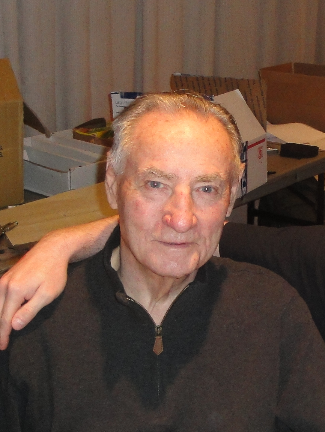 Picture I took of Fernie Flaman at a public signing held in Mansfield, MA on March 06, 2011.